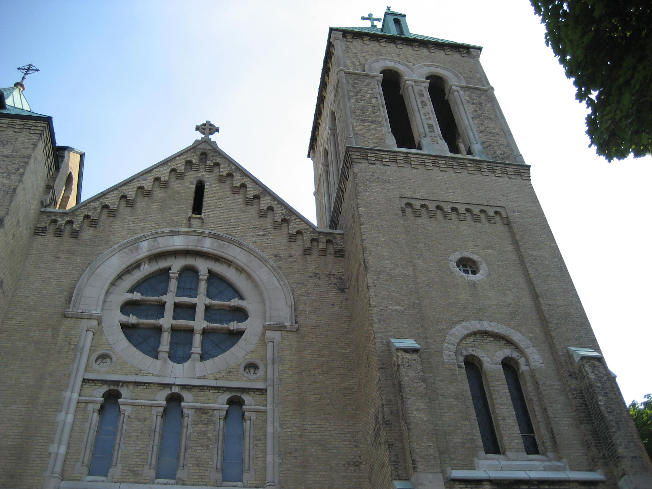 St. Anne's Roman Catholic Church, Sherman Avenue North & Barton Street East, Hamilton, Ontario